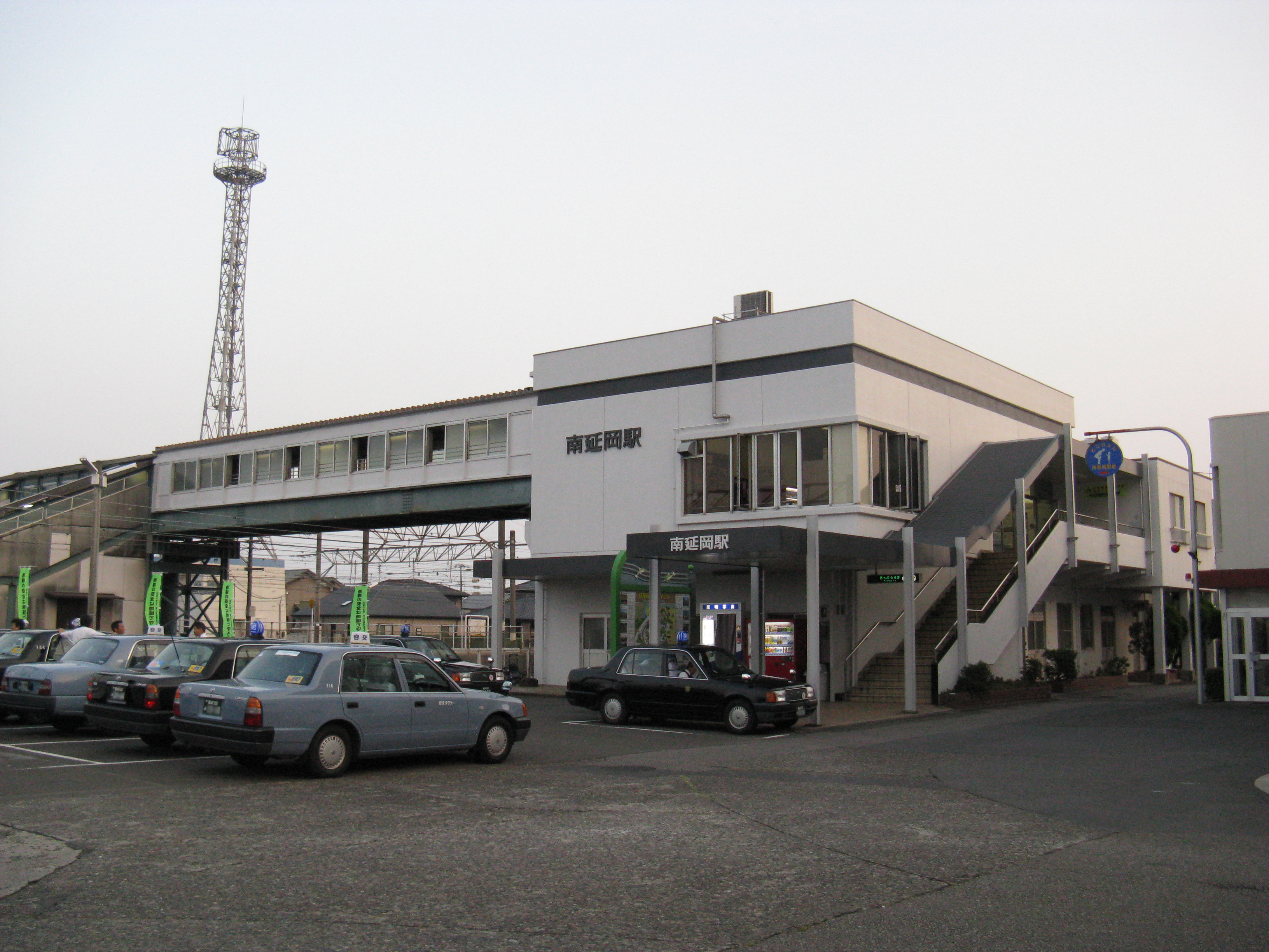 Minami Nobeoka Station 2011.4.1